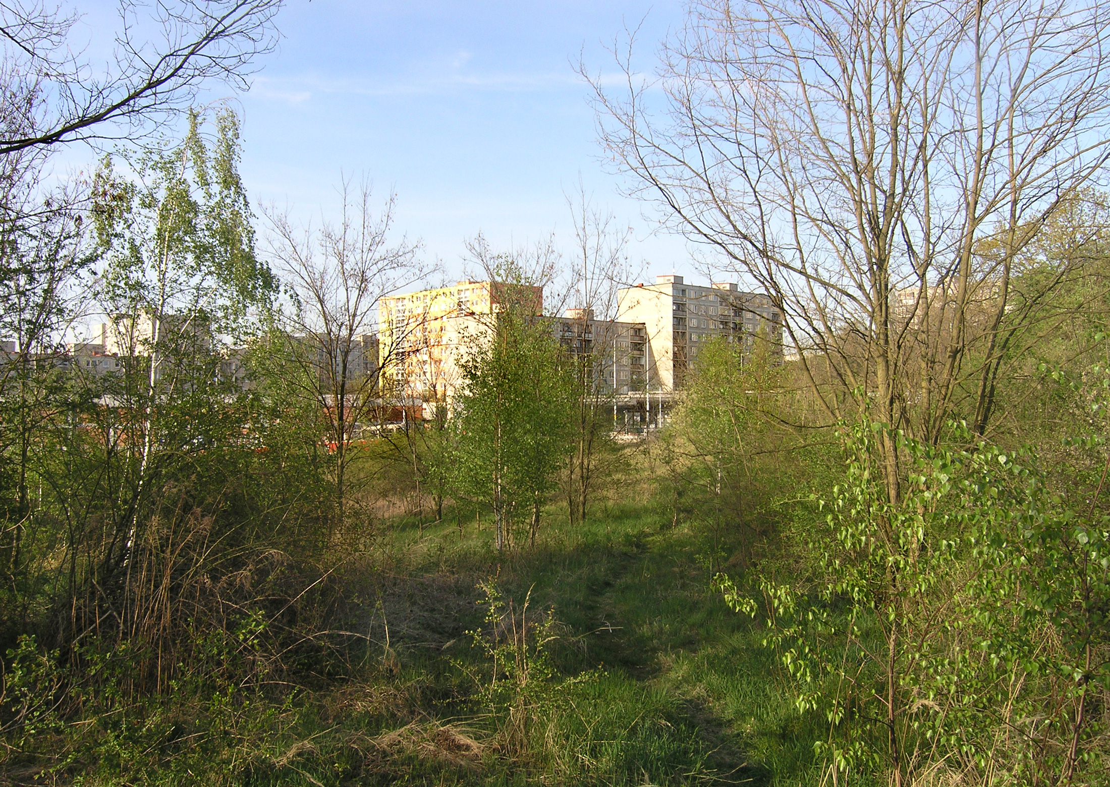 Upper part of Modřany housing estate, Prague